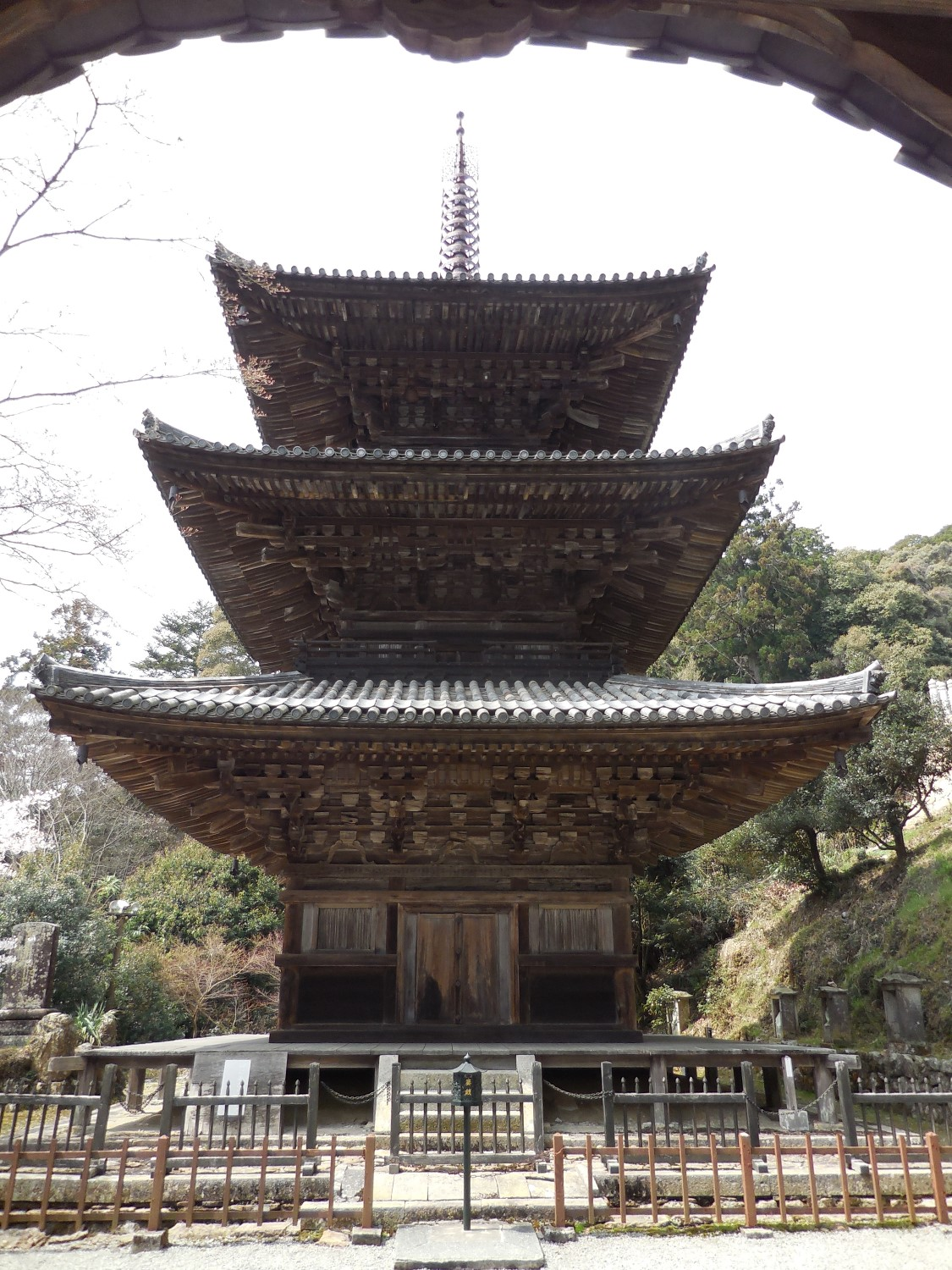 3 story Pagoda at Ichijo-ji